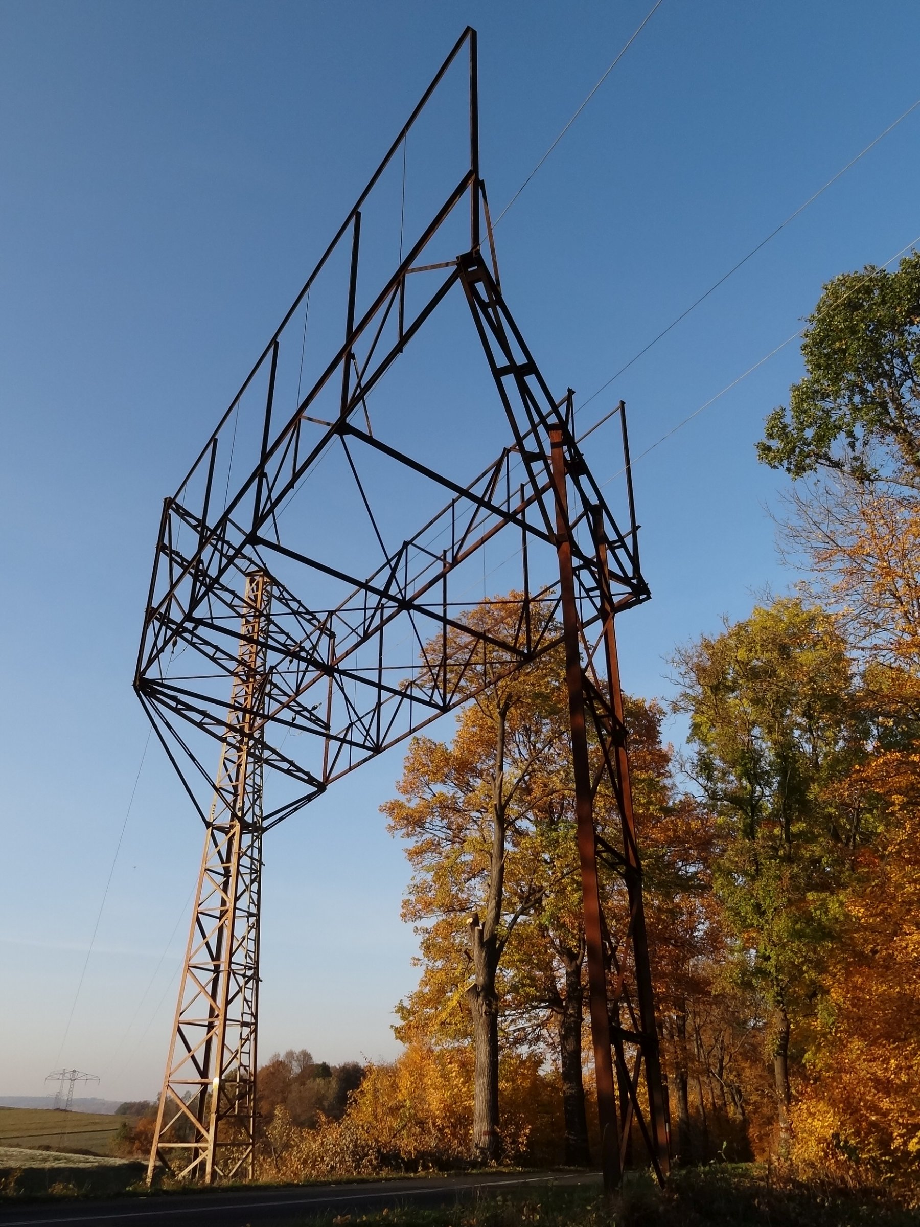 Protection construction of the former 80 kV traction power line (single-phase AC, 16 ⅔ Hz) of the Deutsche Reichsbahn traction power supply in Silesia over the street (Hirschberg/Jelenia Góra—)Spiller/Pasiecznik—Löwenberg/Lwówek Śląski (Polen); today run with 15 kV within the 50 Hz three-phase AC power grid near Ullersdorf-Liebenthal/Wojciechów